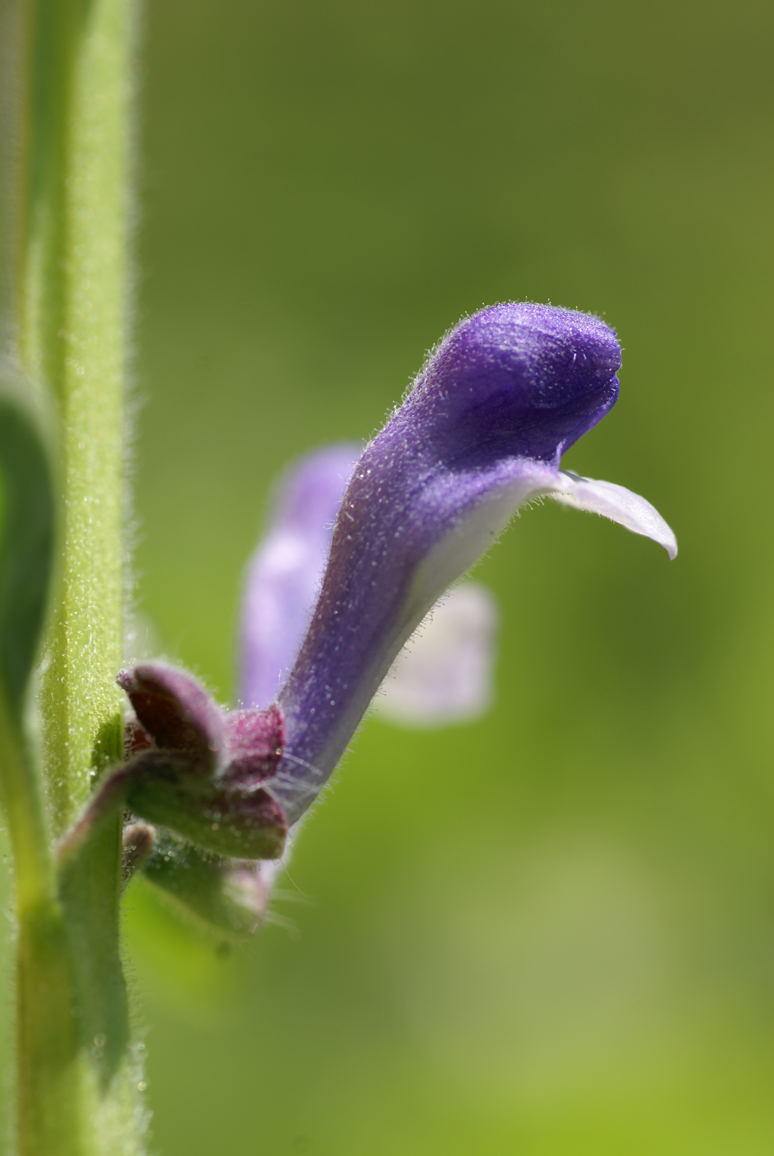 Plant species Scutellaria altissima in Botaniska trädgården in Uppsala, Sweden